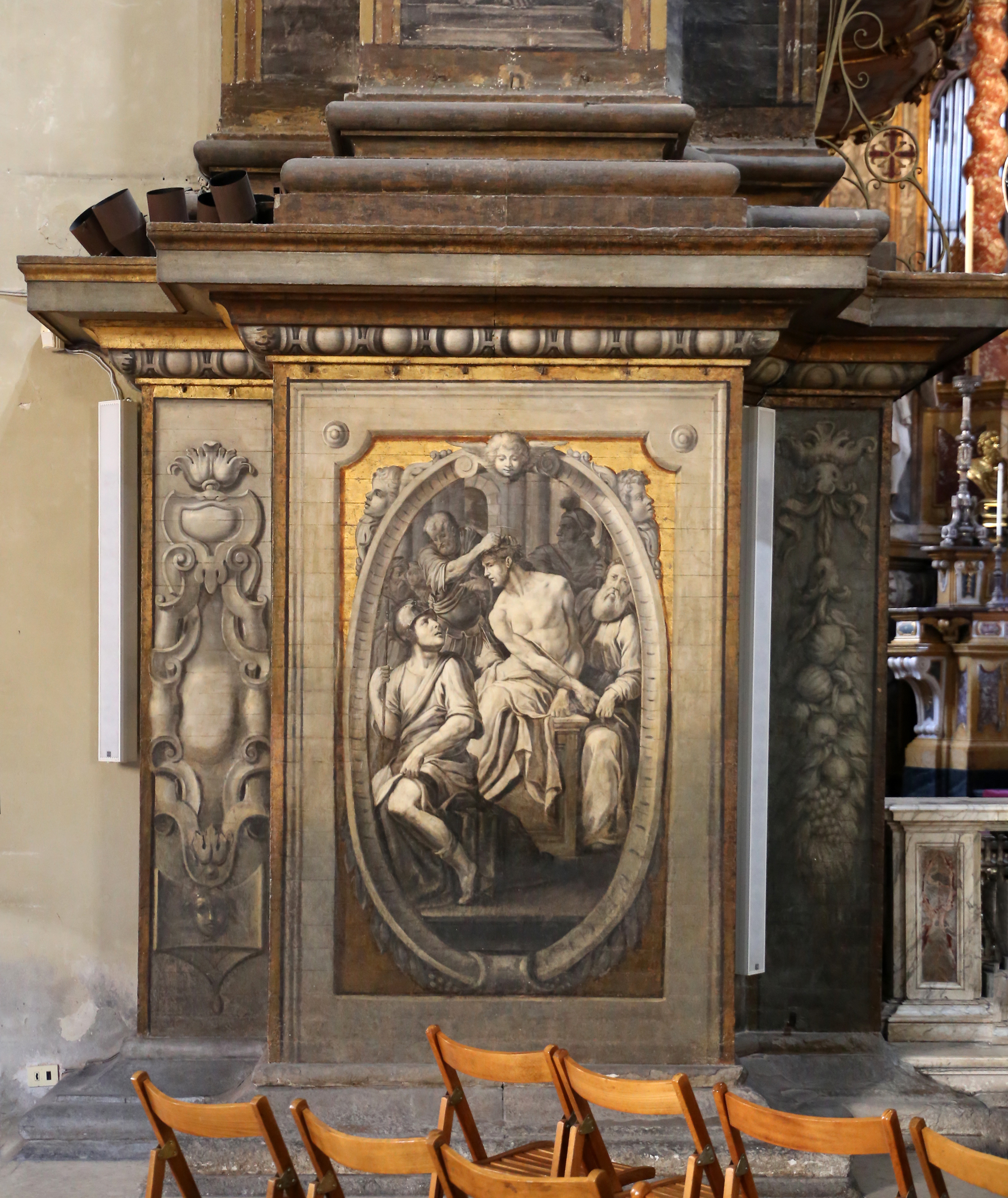 Santa Maria della Steccata (Parma) - Interior